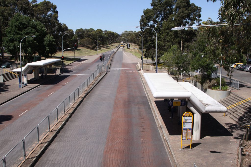 Looking outbound over Klemzig Station on the O-Bahn Busway - Adelaide, South Australia, Australia.